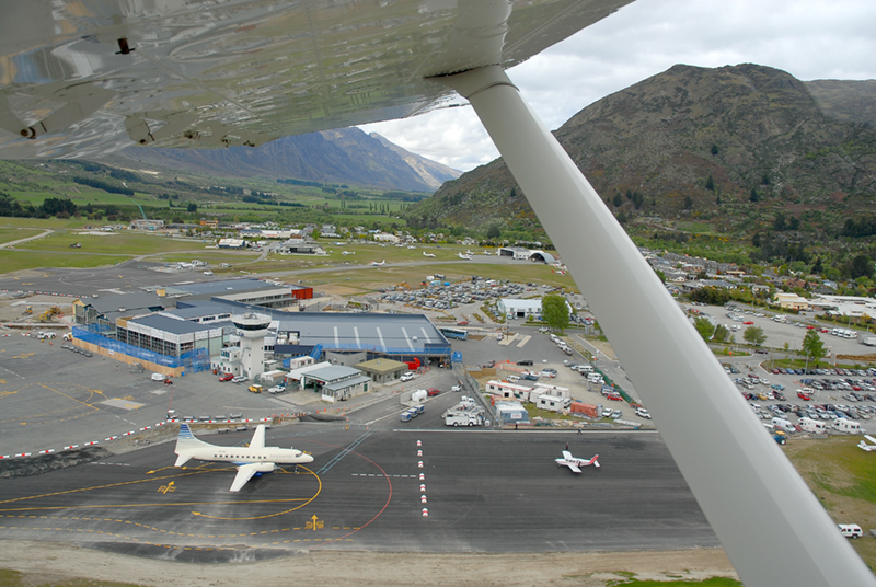 Queenstown Airport from the air, taken from a Glenorchy Air plane